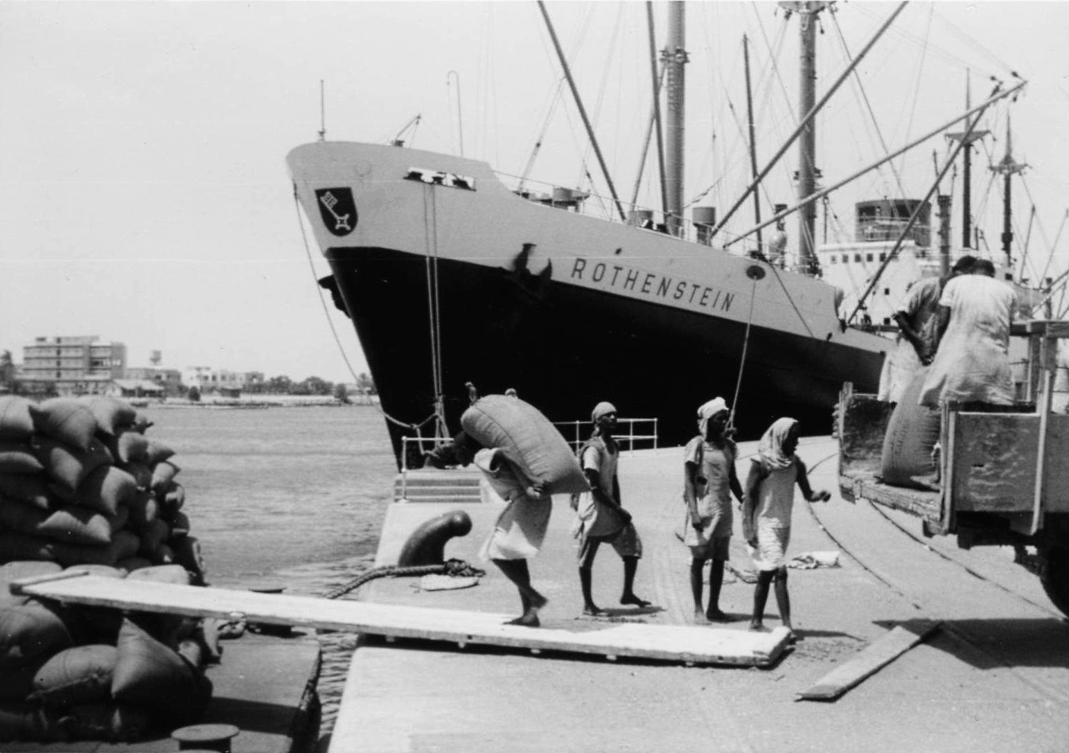 Dockers, when loading bagged cargo - MS Rothenstein NDL, Port Sudan in 1960